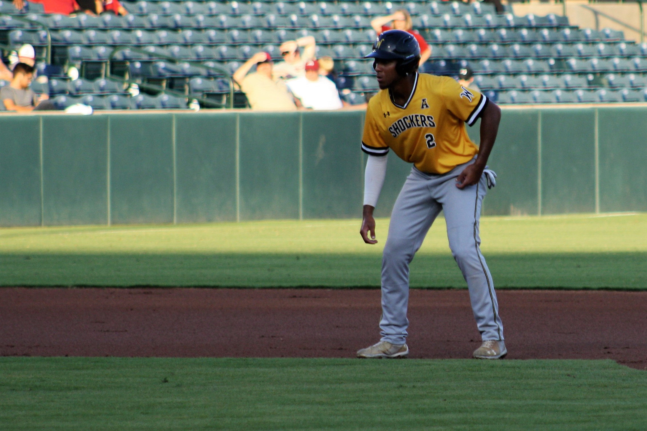 Infielder Alex Jackson leads off second base for Wichita State in an exhibition baseball game against the Arkansas Razorbacks baseball team at Baum Stadium in Fayetteville, Arkansas